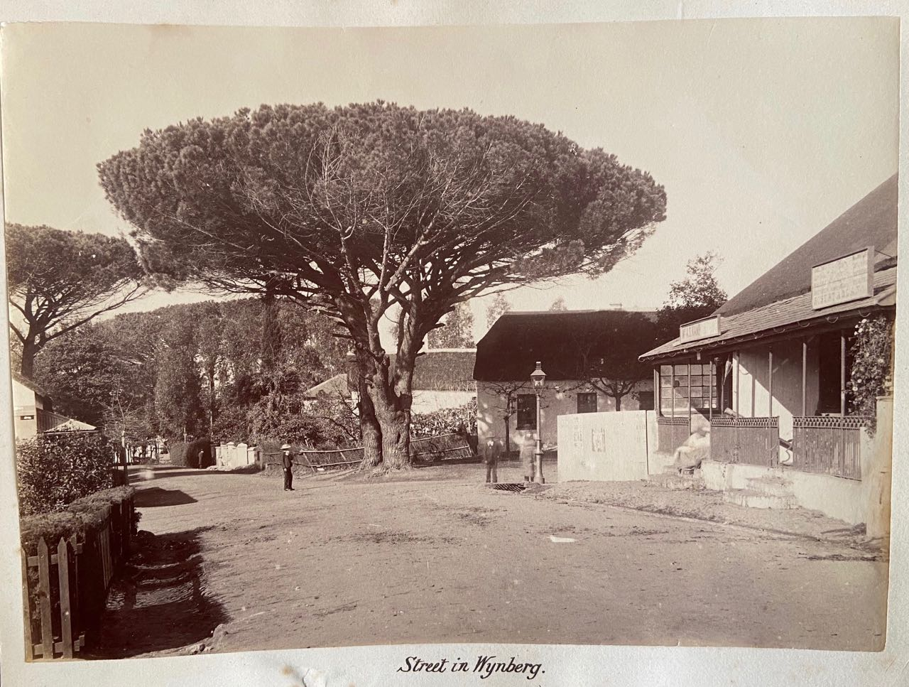 A photograph of Wynberg looking down Durban Road as it intersects Wolfe Street. Taken between 1890-1910. The Author is thought to be Arthur Elliott.